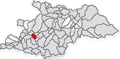 Map of Coltău commune in Maramureş